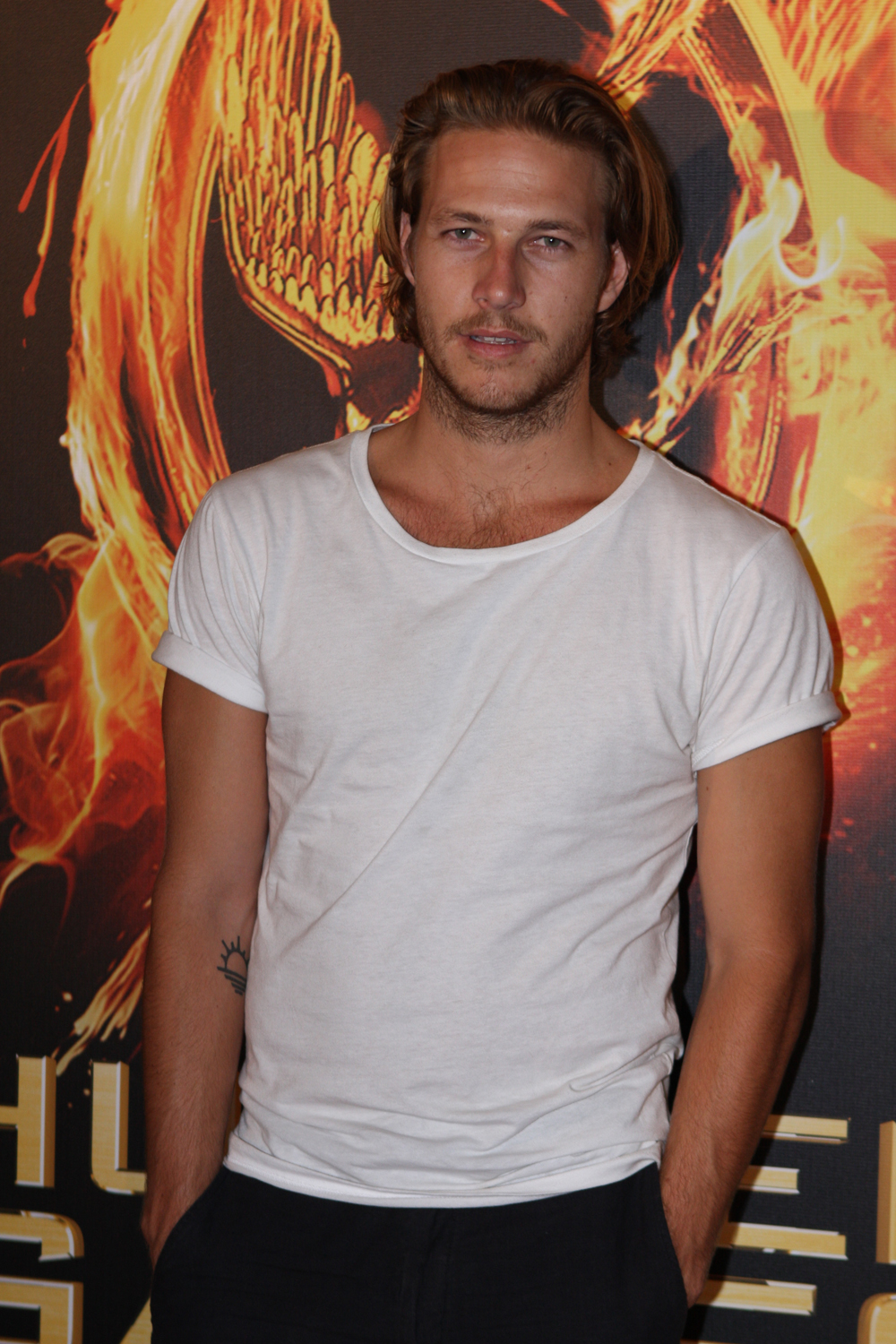 Australian actor Luke Bracey at The Hunger Games Premiere, Sydney, Australia